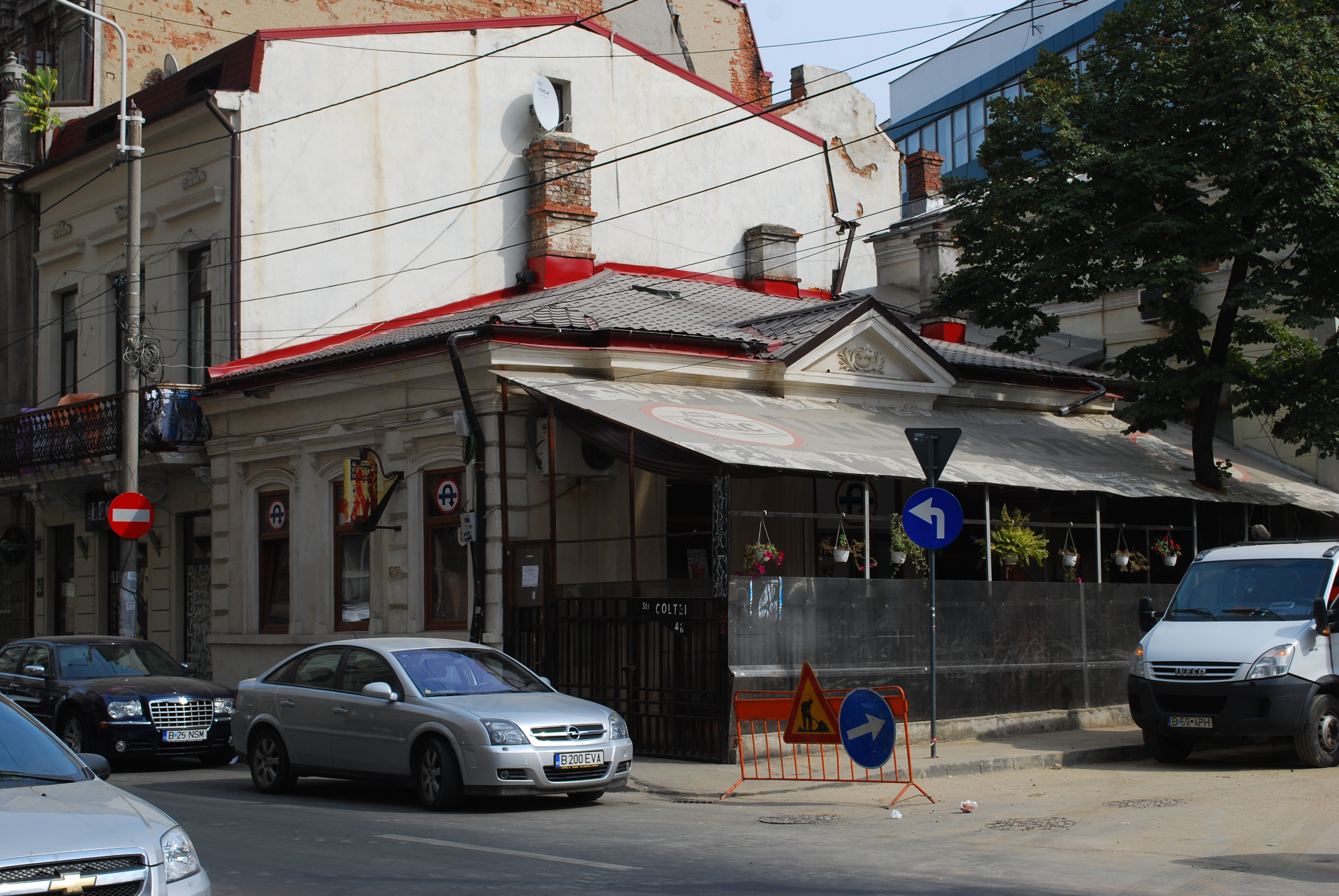 Historic building in Bucharest, Romania, on Colţei street 48